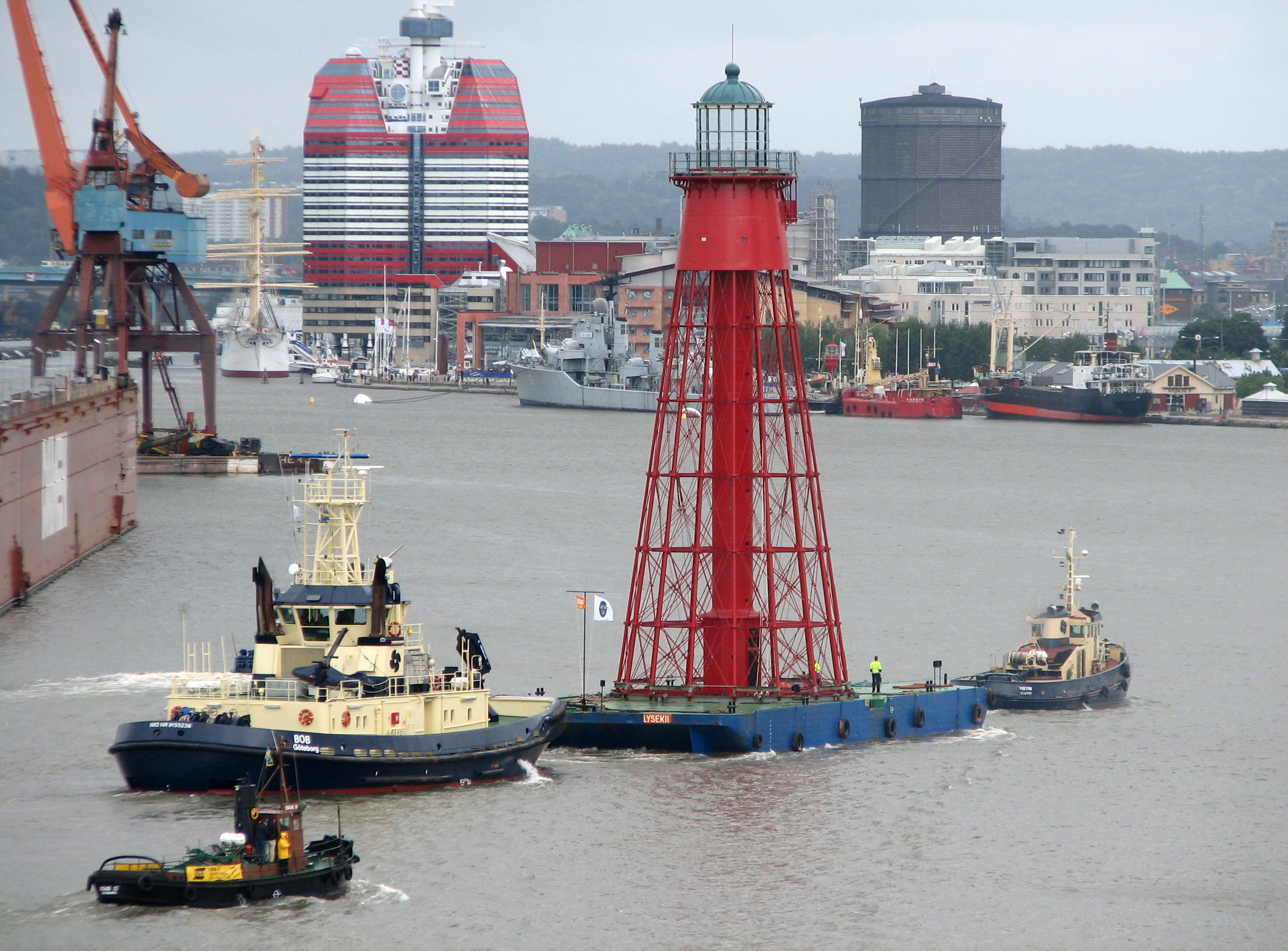 The Pater Noster lighthouse on a two day visit to Göteborg just after a complete restoration at the Arendal shipyard.